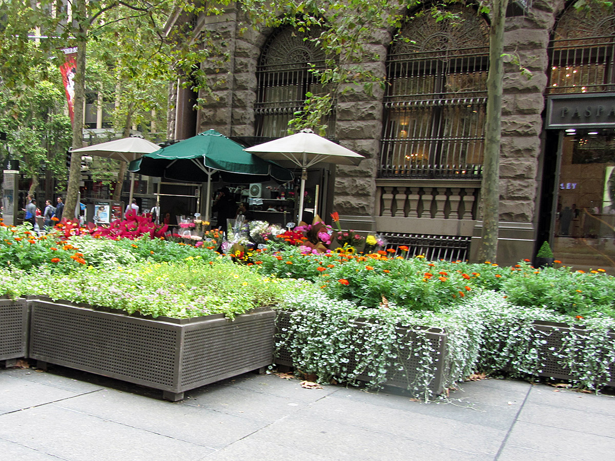 Summer flower stalls in Martin Place, Sydney, 2012.